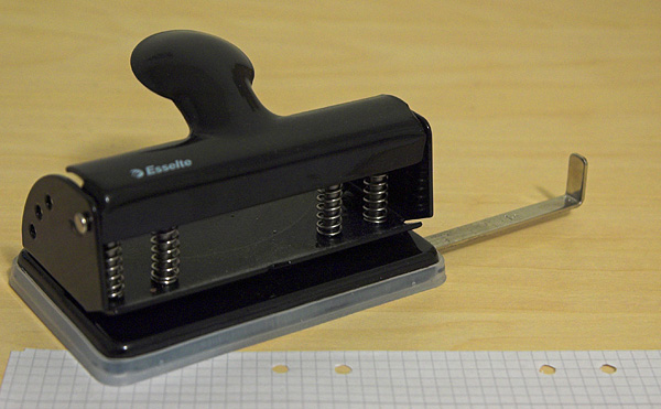 Holepunch and holes, Swedish "triohålning" system